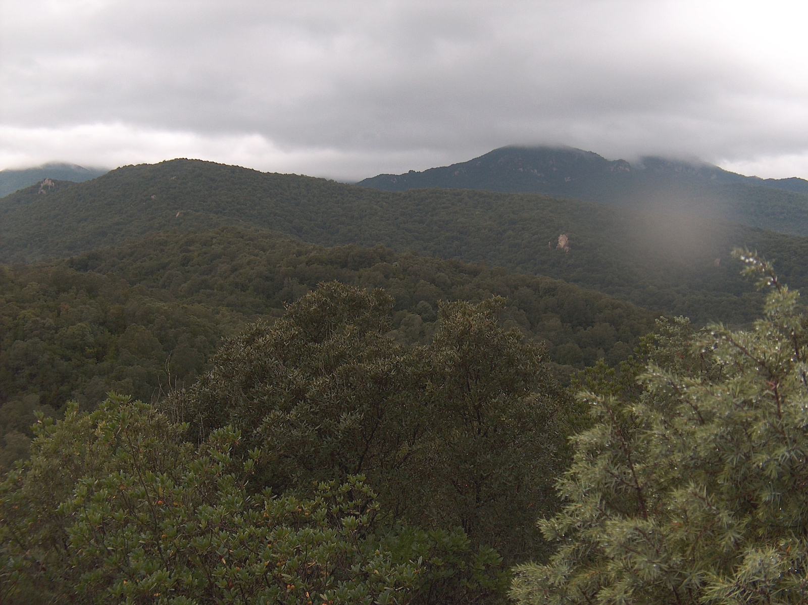 Mount Lattias (at the right), view from the Gutturu Mannu forest